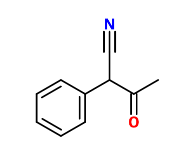 Structural formula of apaan (alpha-phenylacetoacetonitrile)